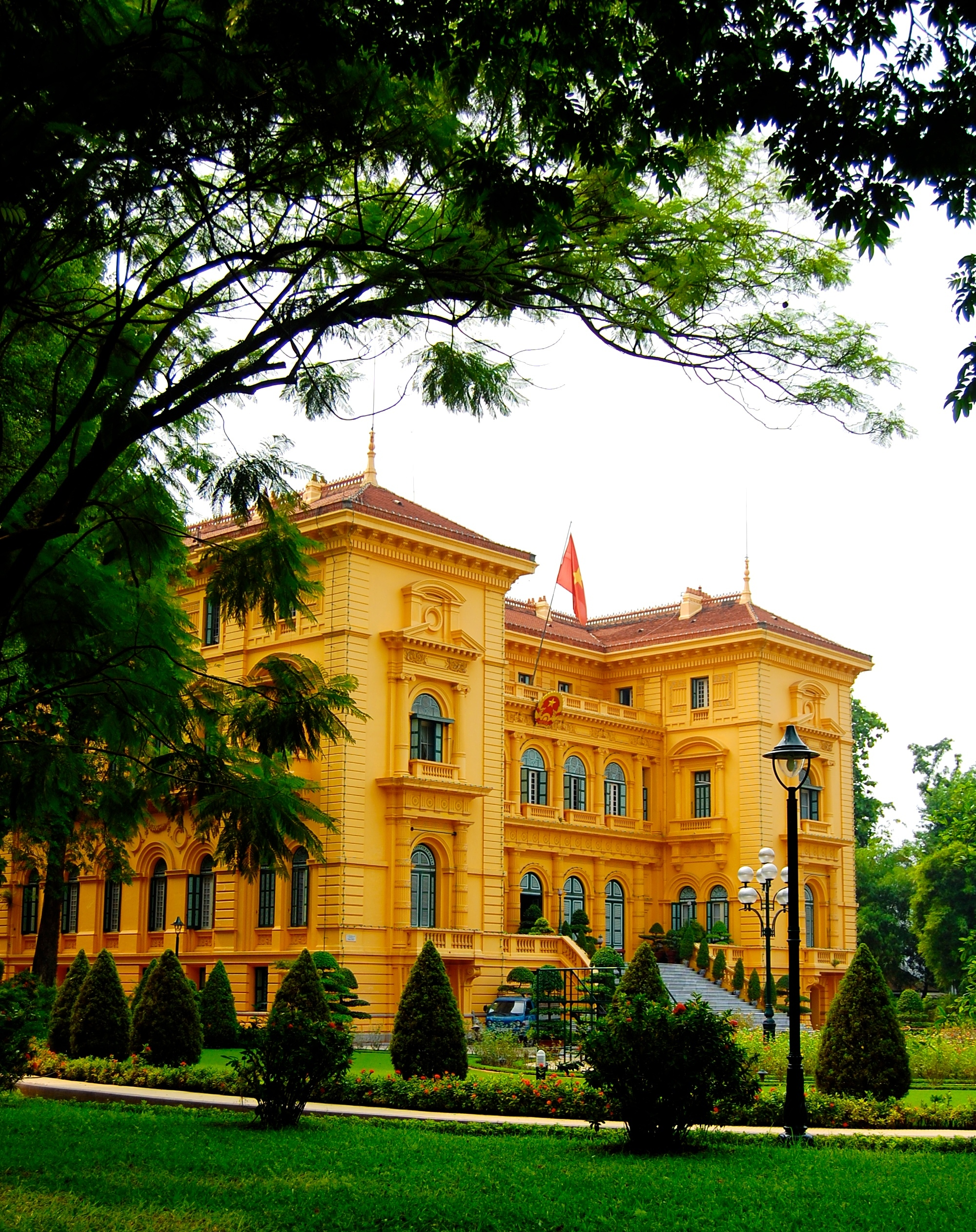 Presidential Palace, Hanoi